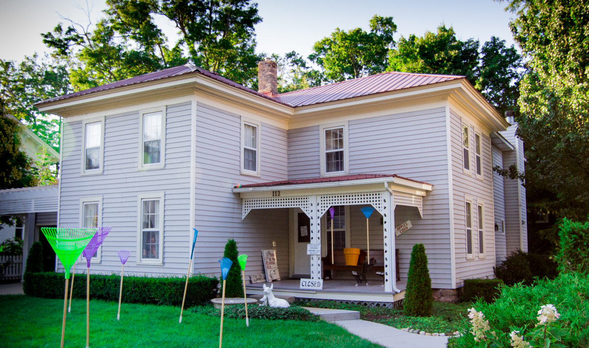 Dr.Asa Goodrich House